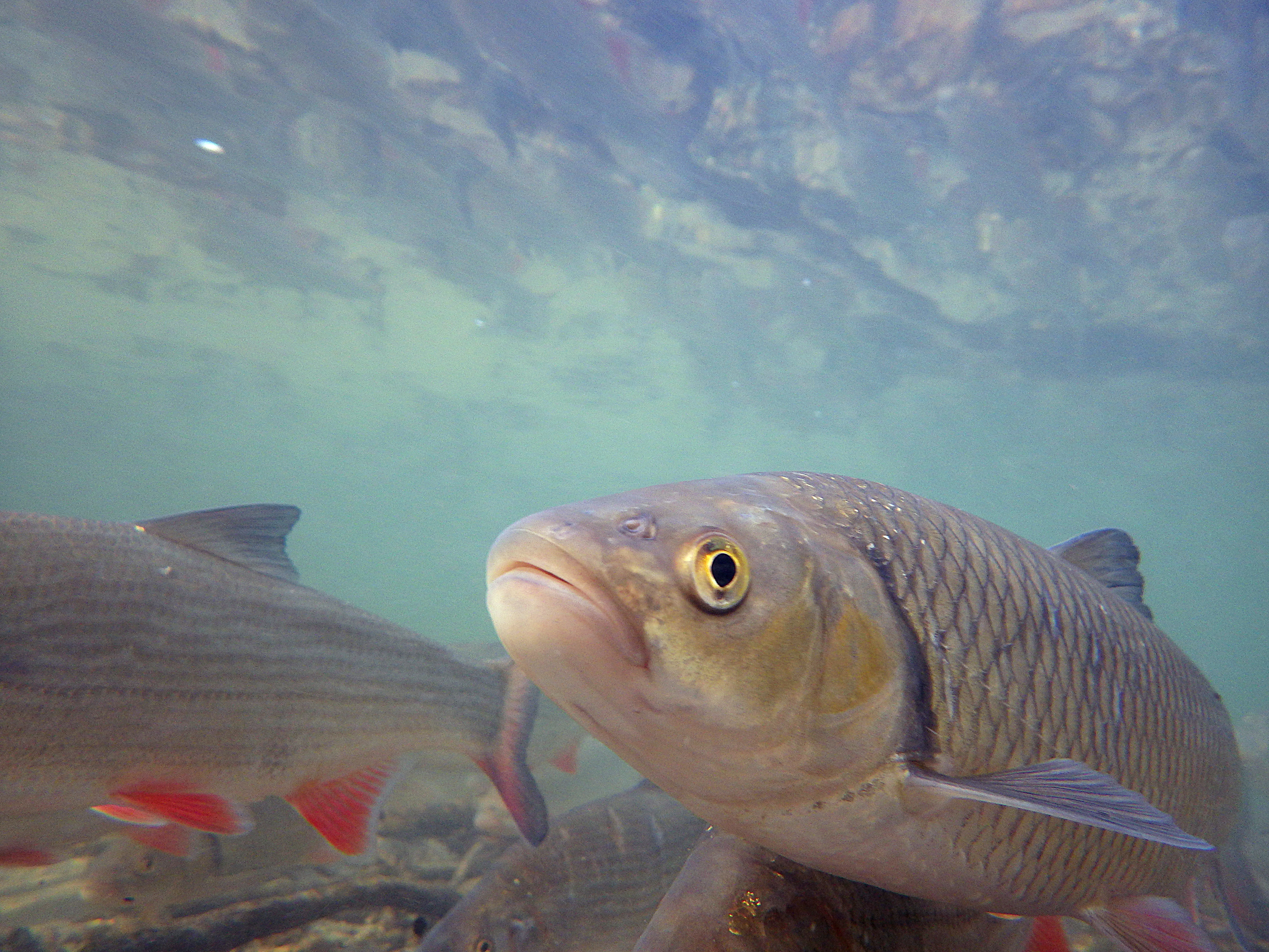 European chub